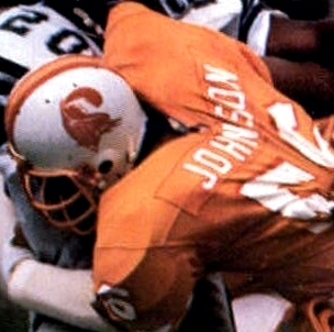 Tampa Bay Bucaneers' linebacker Cecil Johnson tackles Philadelphia Eagles' running back Leroy Harris during the 1979 NFC Divisional Playoff Game on December 29, 1979.